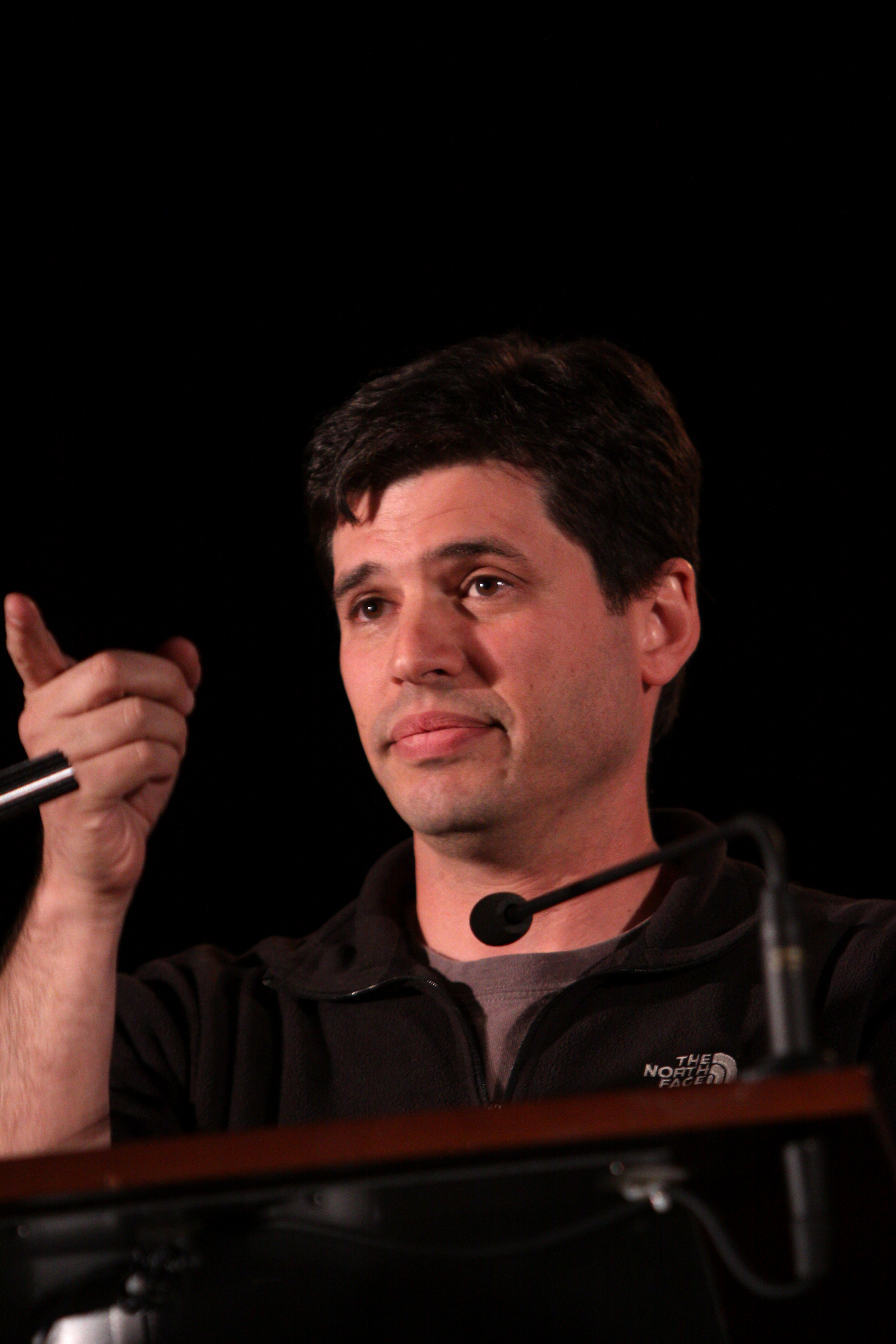 Max Brooks at the Phoenix Comicon in Phoenix, Arizona.